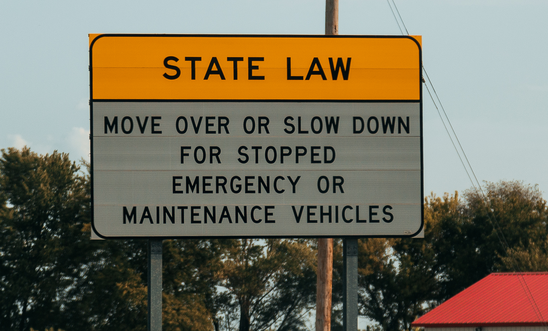 Missouri highway sign - STATE LAW MOVE OVER OR SLOW DOWN FOR STOPPED EMERGENCY OR MAINTENANCE VEHICLES